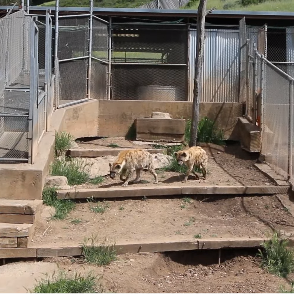 The only captive hyena colony in the world is in the Berkeley Hills, but now is closing due to a lack of funds. Researchers have been studying the behavior of hyenas, but now all this projects will no longer continue.